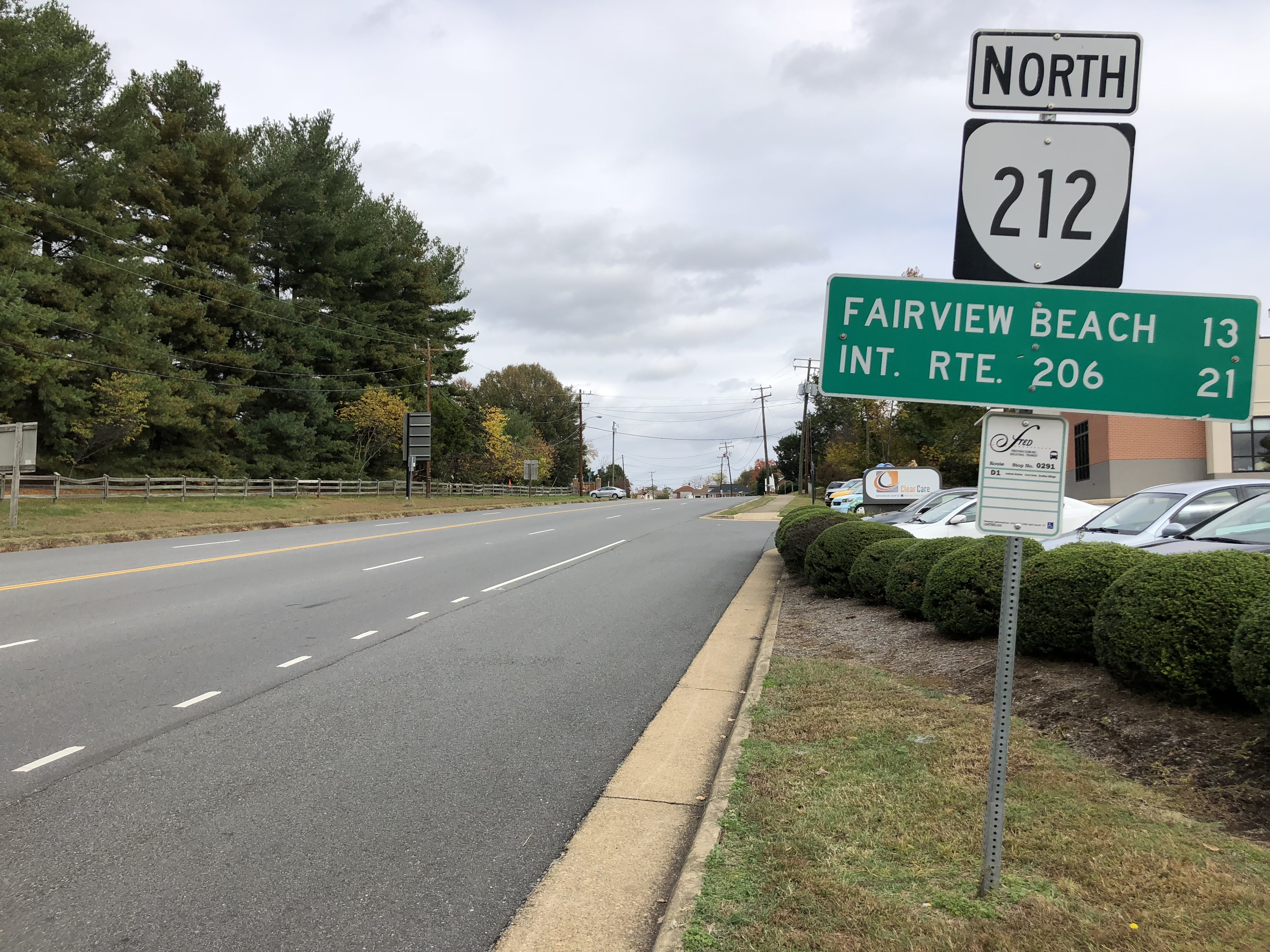 View north along Virginia State Route 212 (Chatham Heights Road) at Virginia State Route 3 Business (Kings Highway) in Chatham Heights, Stafford County, Virginia